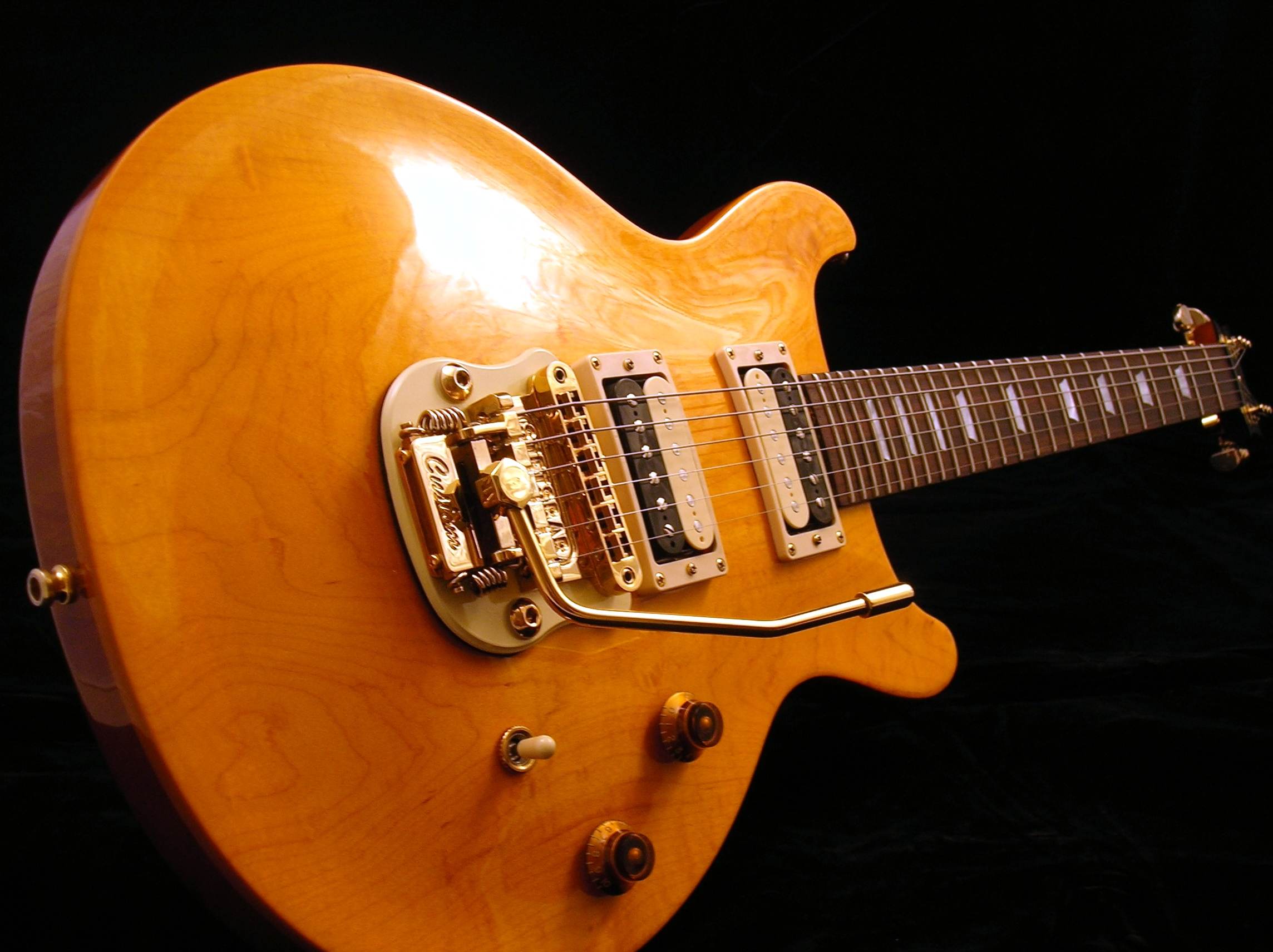 Peter Smith the author took this shot